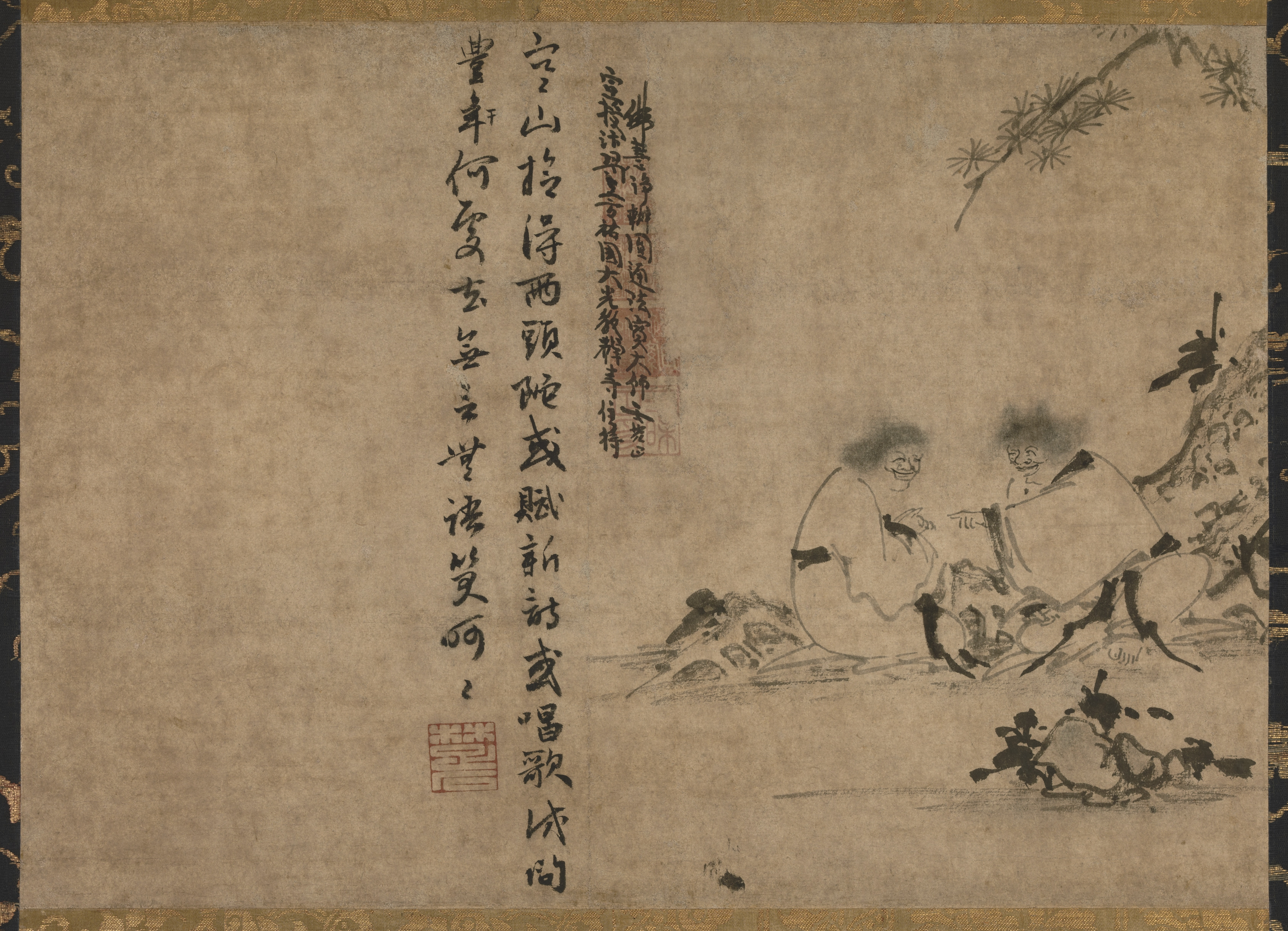 Detached segment of the Deeds of the Zen Masters (紙本墨画禅機図断簡, shihon bokuga zenkizu dankan): Hanshan and Shide (寒山拾得図, kanzan jittokuzu). Handscroll, 35.0 x 49.5 cm. Ink on paper. Located at Tokyo National Museum, Tokyo.